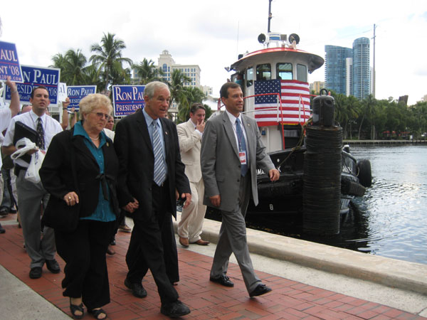 Date: Sept. 17, 2007 Description: Ron & Carol Paul, Ron Paul Steaming in New River, Ft. Lauderdale Photo by Jamie Kelso